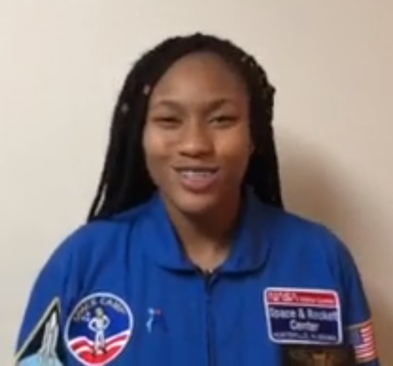 "Hello! My name is Taylor Richardson, I am also known as “Astronaut Starbright”. I am an ambassador and defender of STEM. STEM (Science, Technology, Engineering and Math) means Science, Technology, Engineering and Mathematics. And I would like all of you to know that you can be what you want to be, whether it's sending someone to Mars, developing your own App or building a new robot. So remember: BE YOURSELF AND DREAM BIG IN STEM, YOUR OPTIONS ARE UNLIMITED. ”